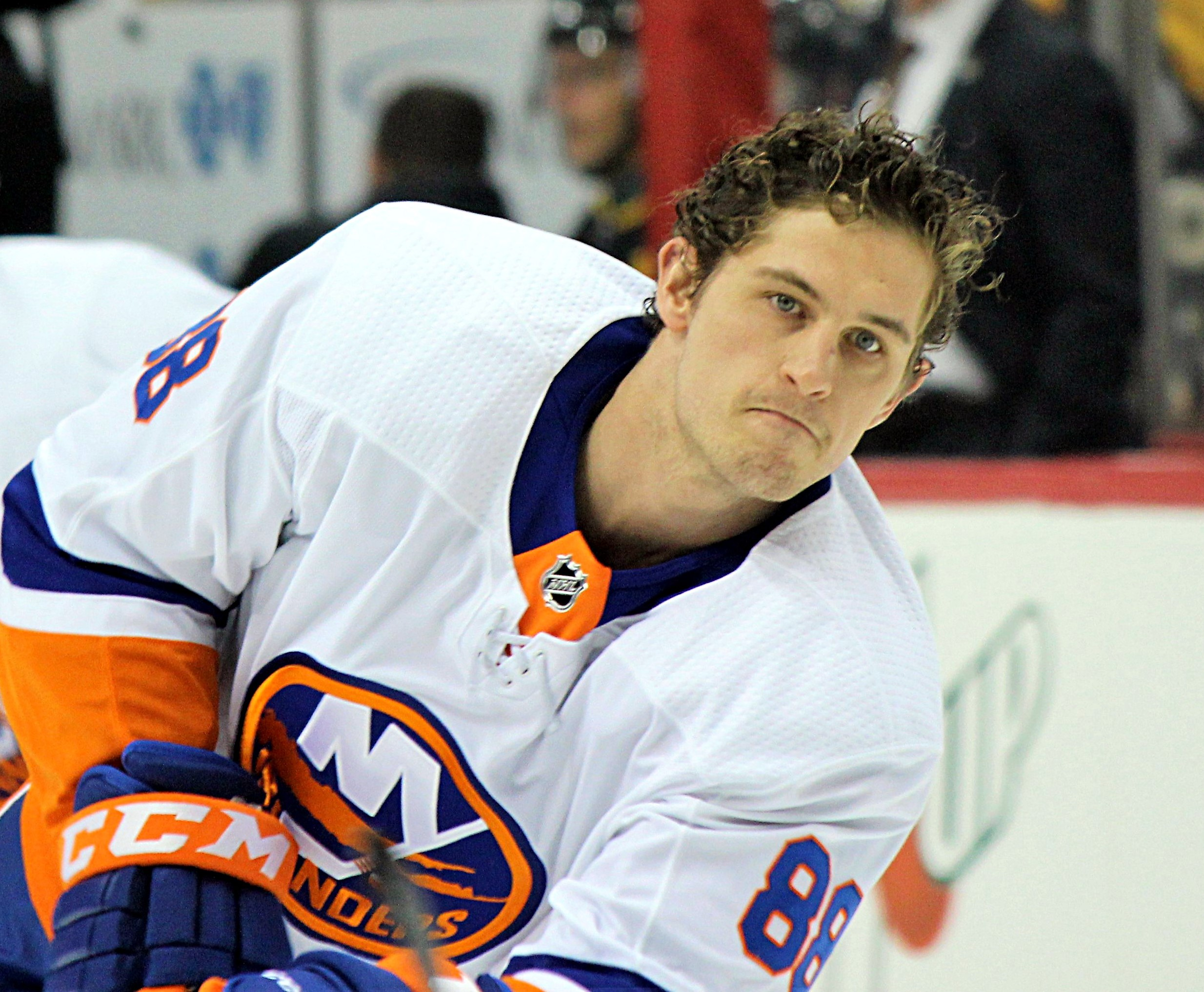 New Yorks Islanders defenseman Brandon Davidson during a game against the Pittsburgh Penguins at PPG Paints Arena in Pittsburgh, PA. Saturday, March 3, 2018.